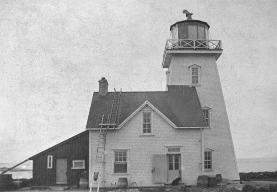 Île aux Perroquets Lighthouse in 1890